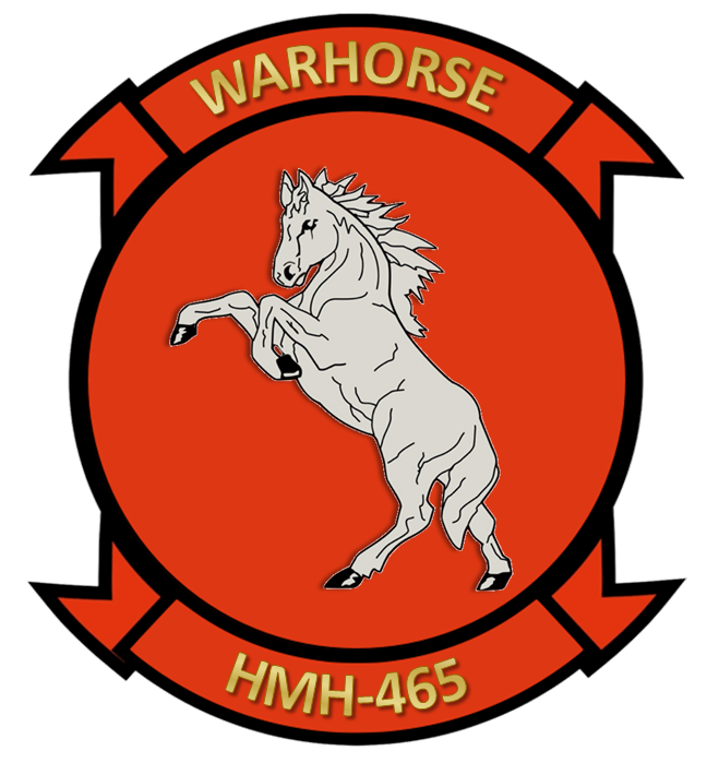 Patch of HMH-465, a Marine Corps CH-53E unit located at MCAS Miramar, CA.